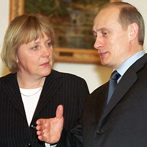 THE KREMLIN, MOSCOW. Meeting with the leader of Germany's Christian Democratic Union, Angela Merkel.